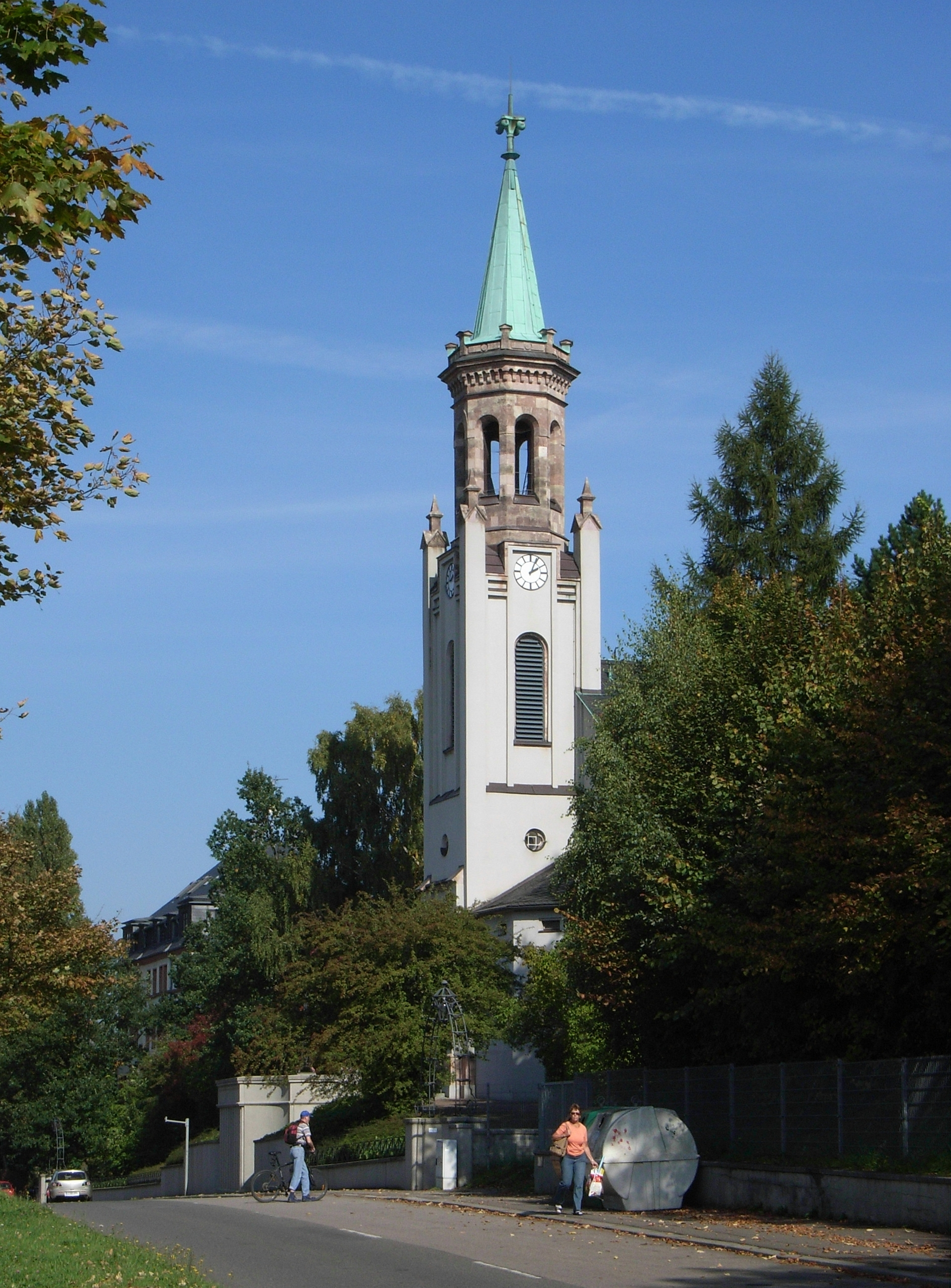 Trinity Church Chemnitz-Hilbersdorf